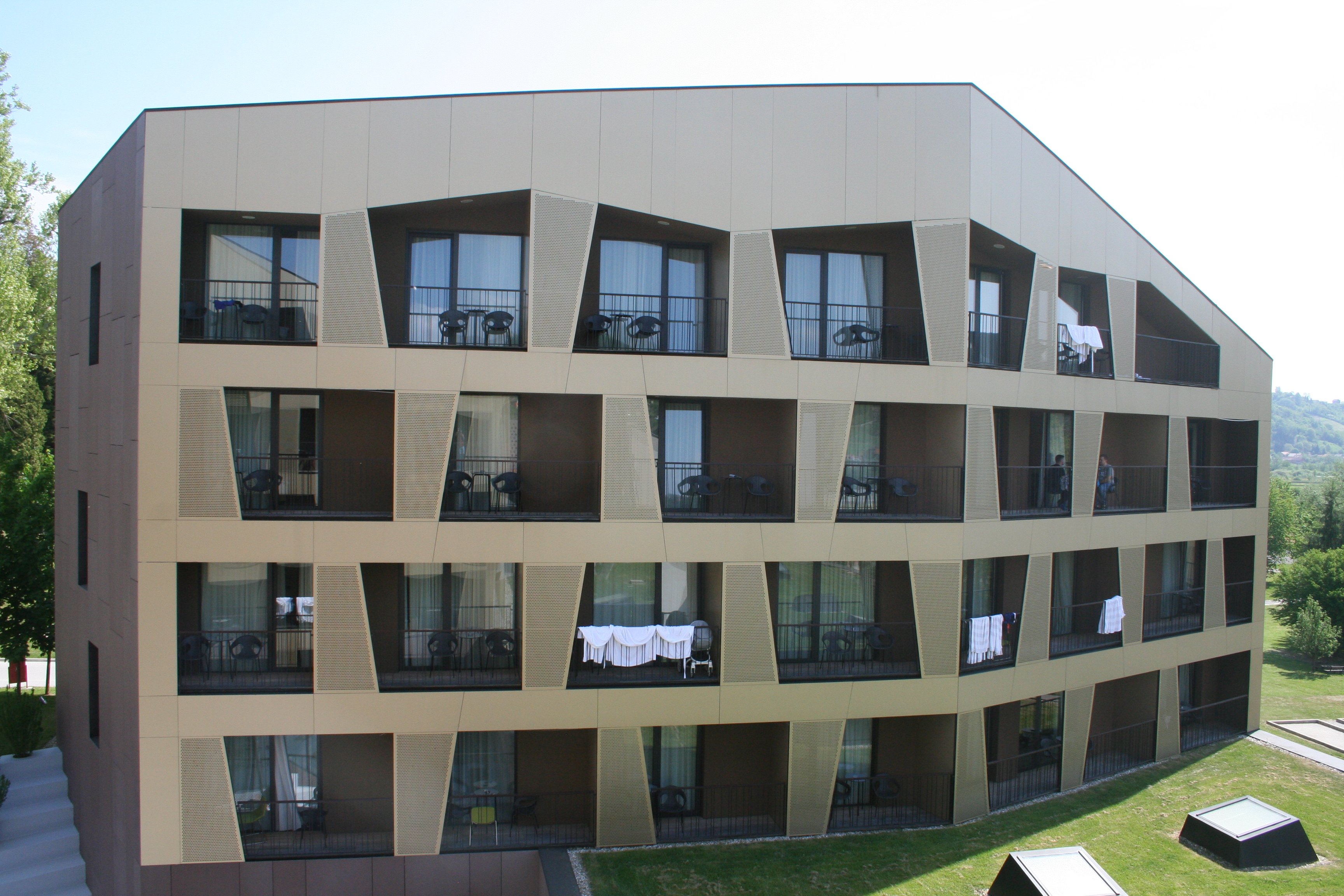 Hotel Well in Terme Tuhelj.